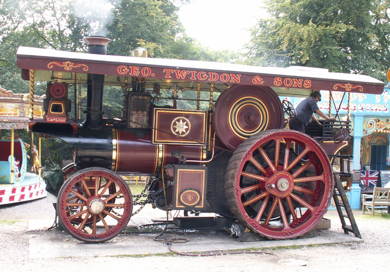 The Emperor traction engine at Hollycombe Steam Collection, driving a dynamo.